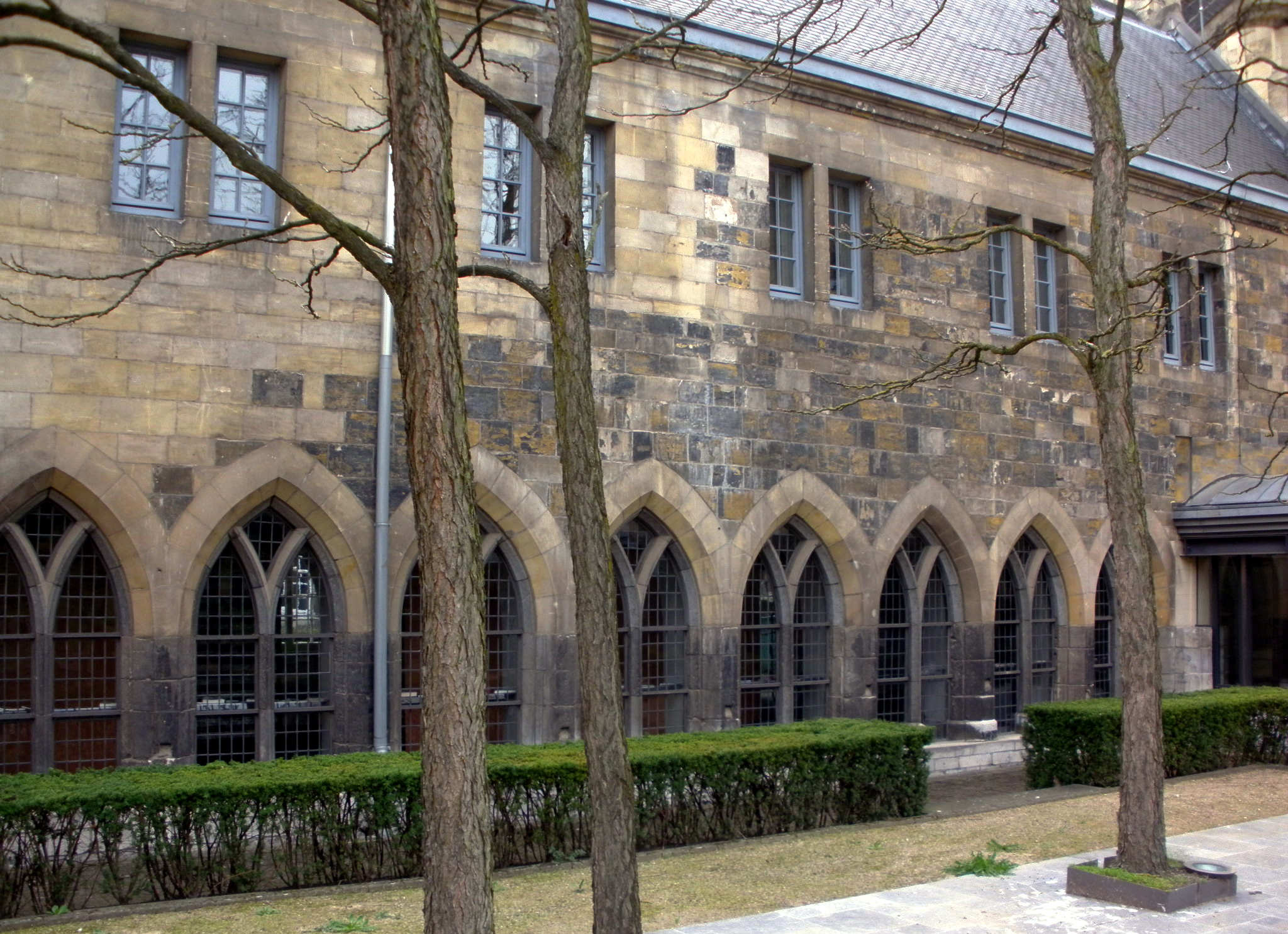 Rebuilt (1942) wing of the cloisters of the Old Friars Church in Maastricht, the Netherlands (originally 13th c.).